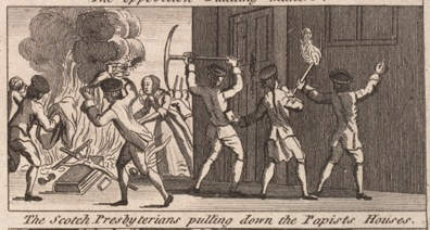 File name: 11_03_000031 Box label: American related cartoons, 5548 - 5731 Title: The political raree-show: or a picture of parties and politics, during and at the close of the last session of Parliament, June 1779 Translated title: Creator/Contributor: Date issued: 1779-07-01 Physical description: 1 print : engraving ; 9 1/2 x 14 in. Summary: A boy looks into a peep show to see twelve pictures of recent events in the British empire. ... 9) No-Popery riots in Scotland instigated by Presbyterians. ... One of the important things to note is that America is hardly the central focus and occupies but one of the twelve pictures. Genre: Political cartoon; Engravings Subjects: Burgoyne, John, 1722-1792; North, Frederick, Lord, 1732-1792; Howe, William Howe, Viscount, 1729-1814; Sandwich, John Montagu, Earl of, 1718-1792; Burke, Edmund, 1729-1797; Fox, Charles James, 1749-1806; United States--History--Revolution, 1775-1783; Politics & government; Commerce; Peepshows Notes: References: Catalogue of prints and drawings in the British Museum, no. 5548 (BM 5548); References: American Revolution in Drawings and Prints, no. 748 (ARDP 748) Statement of responsibility: Collection: Americana Collection Location: Boston Public Library, Print Department Rights: No known restrictions